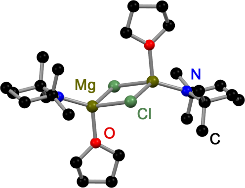 Solid state structure of TMP Hauser Base